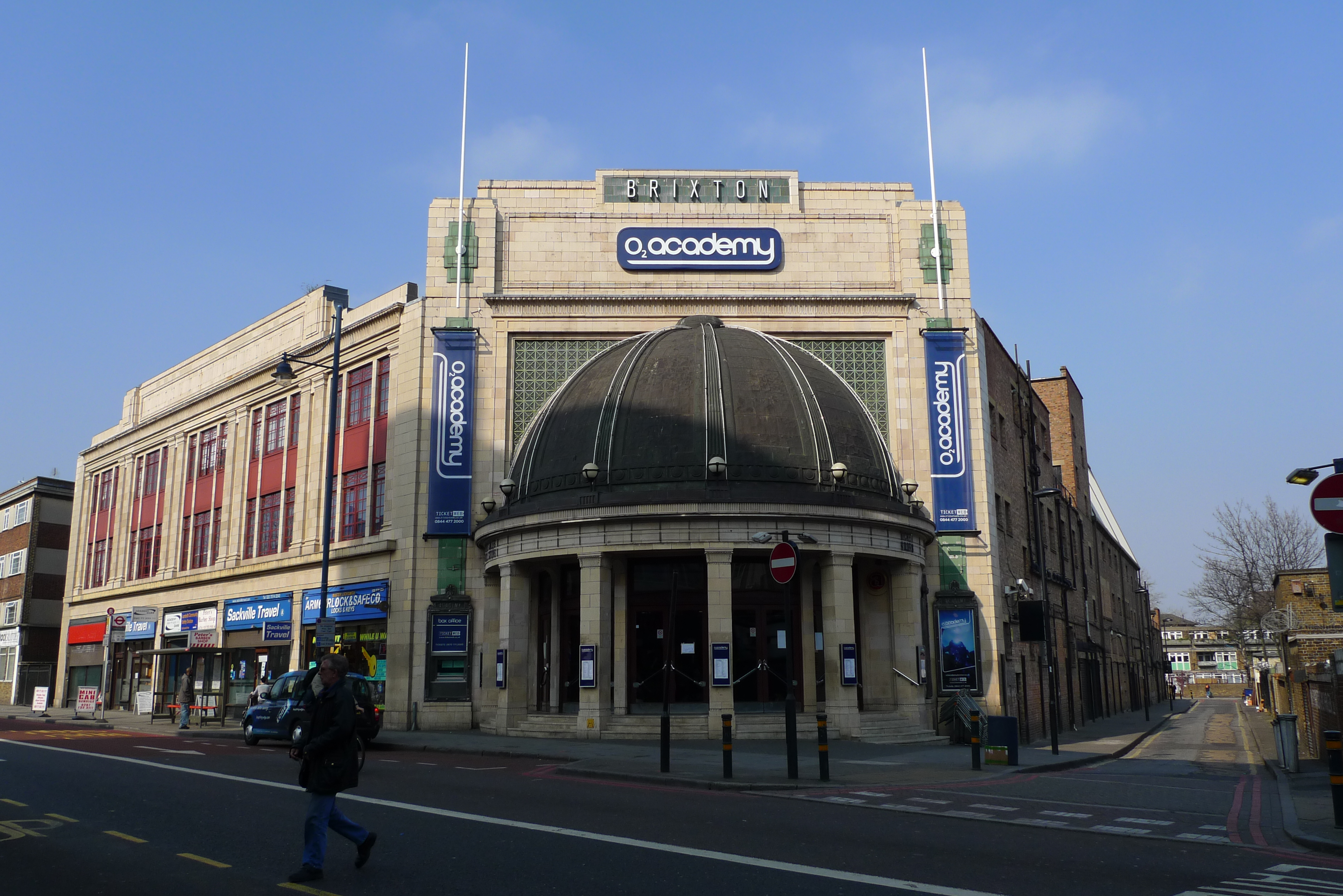 An excellent venue and former cinema. It opened in 1929 and closed for films in 1972. Address: 211 Stockwell Road. Former Name(s): The Fair Deal; The Sundown Centre; Odeon Astoria; The Astoria. Owner: O2 (website); Carling (former). Links: Randomness Guide to London Wikipedia Cinema Treasures